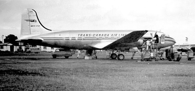 Trans Canada Airlines DC-4M-2 North Star at London Airport (Heathrow)